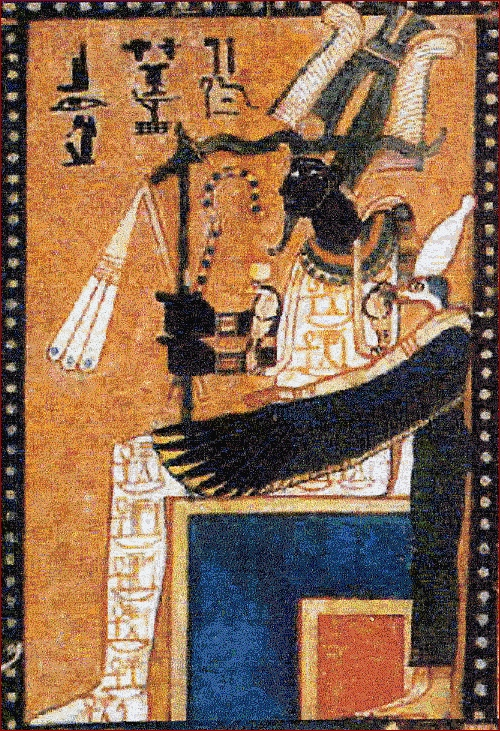 Portrait of Osiris from «The Book of the Dead»